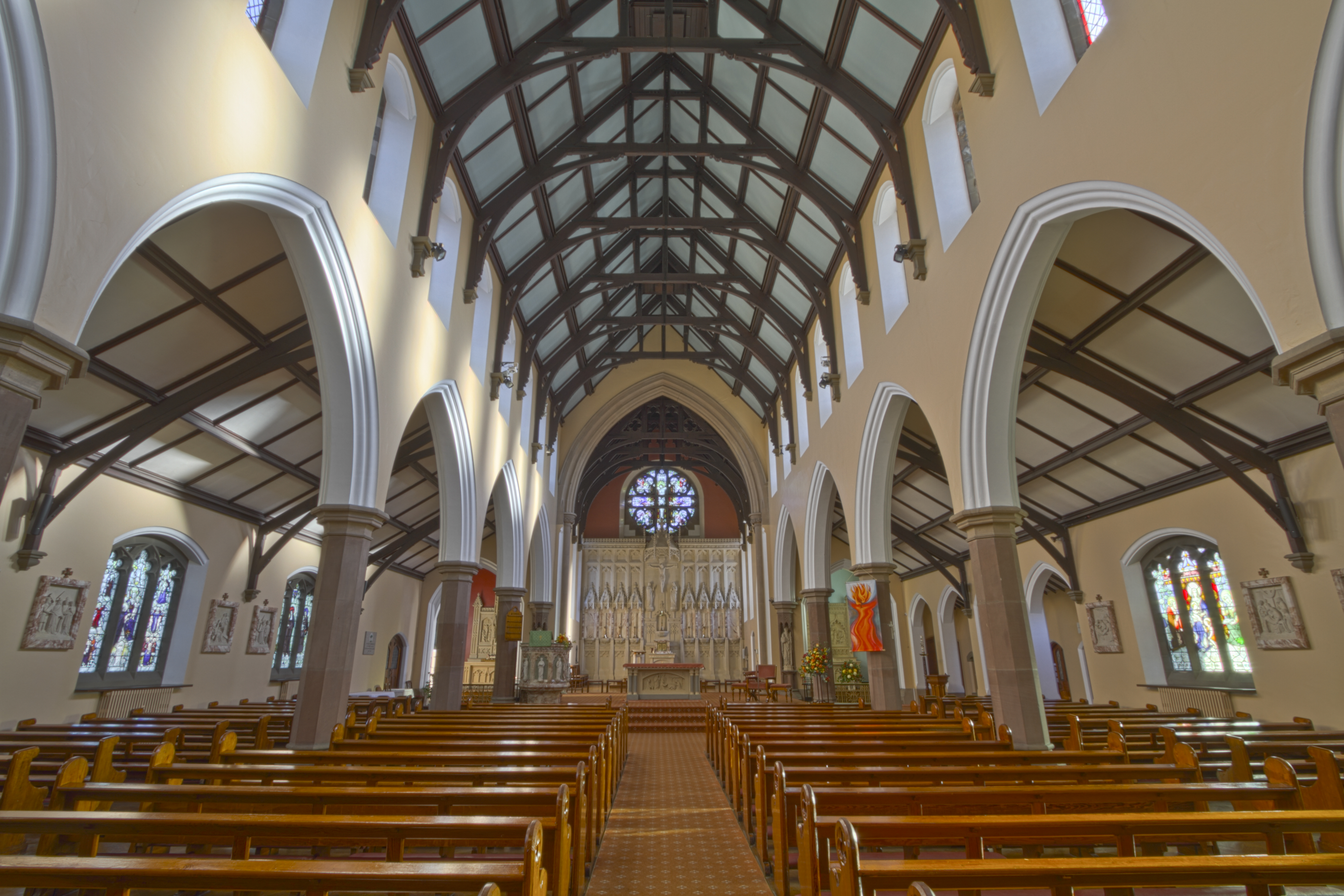 Inside St Kentigerns RC Church. Located in Blackpool, Lancashire, England, UK.